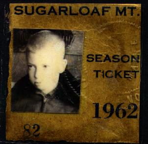 Seasons pass from 1962